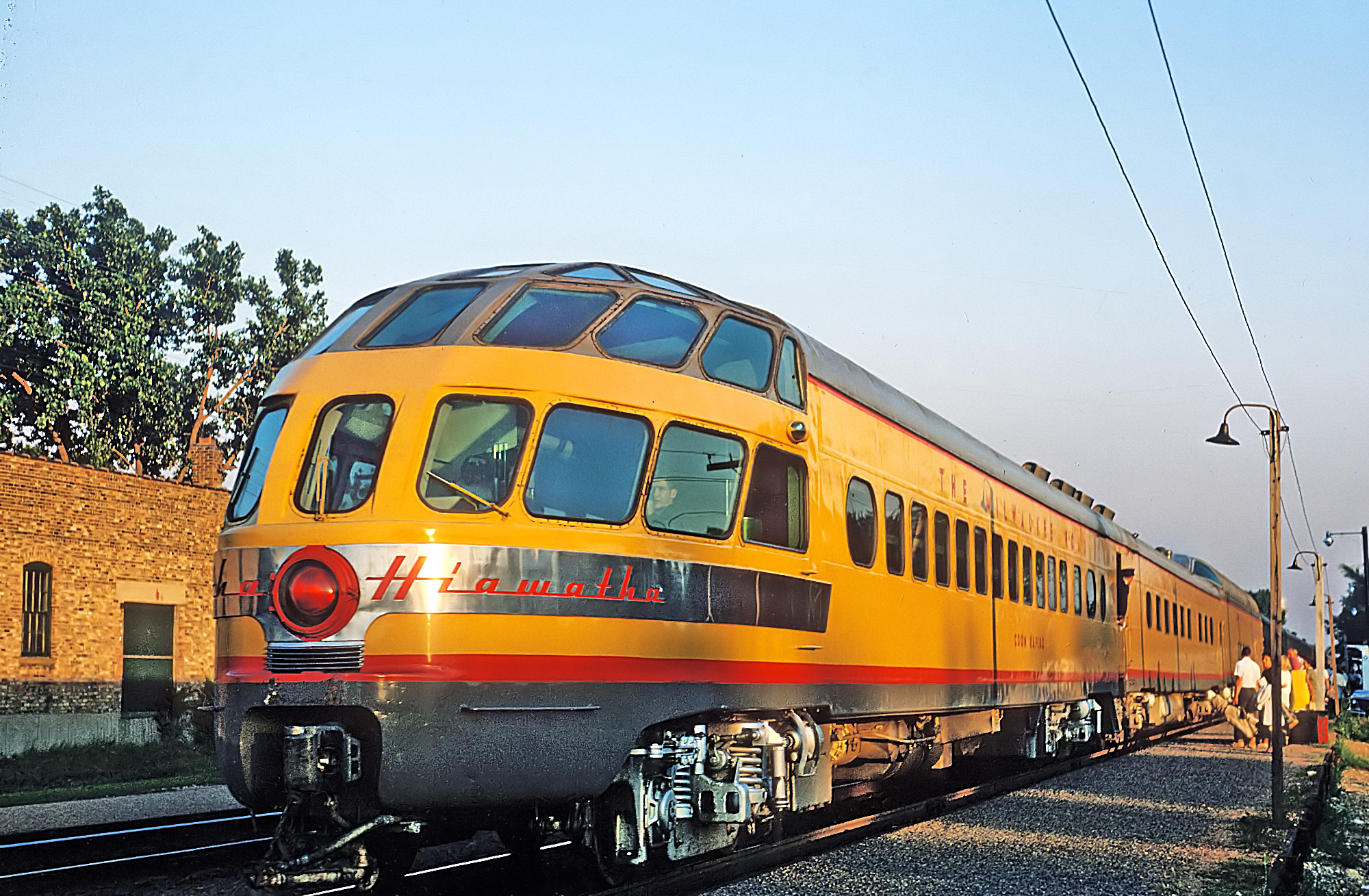 This is from Roger Puta's Winterail slide program First Class, A Study in Lighting.